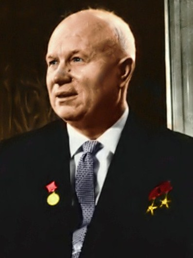 Soviet Premier Nikita Khrushchev in Vienna.